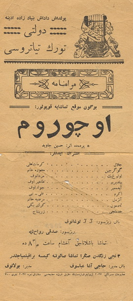 Program of play "Precipice" (play of Huseyn Javid). State Turkic Theatre named after Dadash Bunyadzade